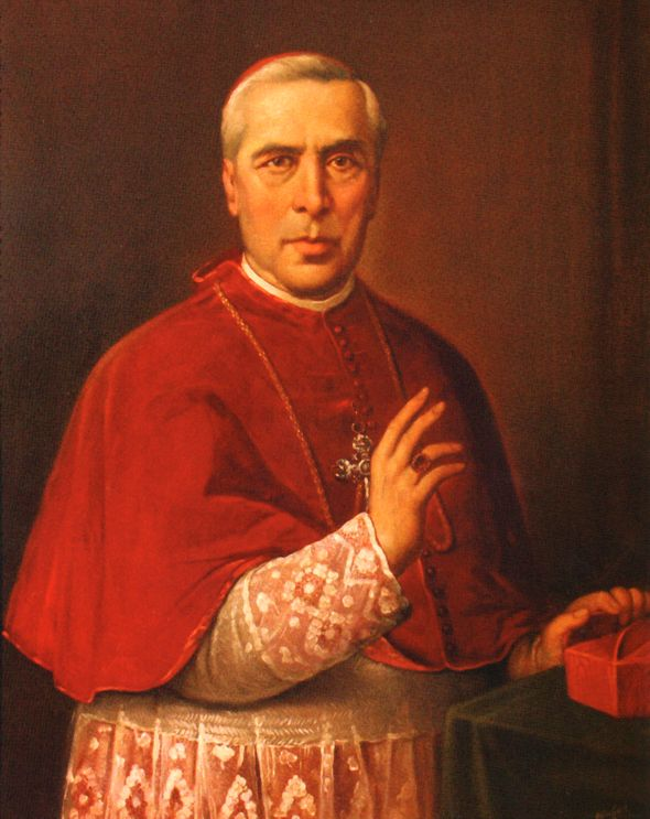 Dom António Mendes Bello (1842-1929), Cardinal-Patriarch of Lisbon.